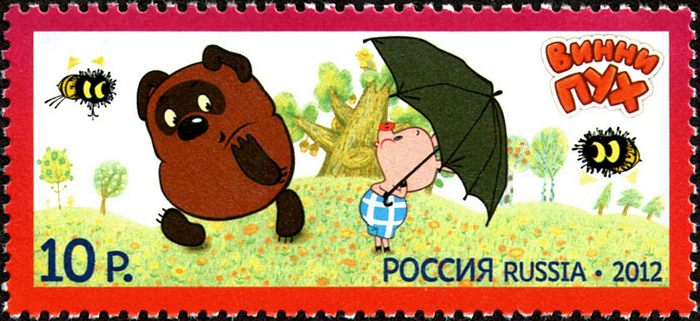 Soviet animated cartoons.Winnie-the-Pooh. 1969. Soyuzmultfilm. Directed by Fyodor Khitruk.The stamp of Russia, 10.00 rubles, 3 December 2012, PTC Marka Catalogue No 1652. Coated paper. Offset printing, multicoloured. Perforation: comb 12:12½. Size of the stamp: 58×26 mm. Print run: 200,000.